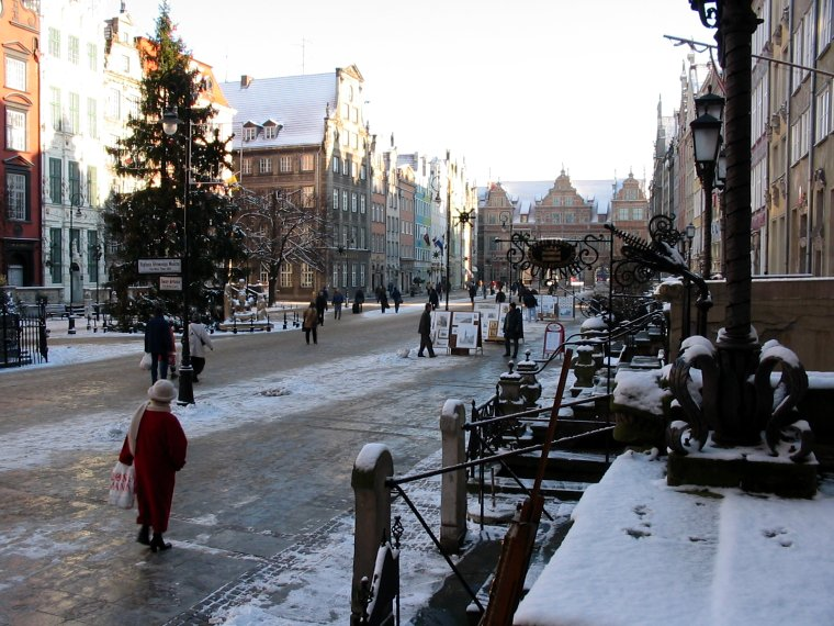 Długi Targ Square in Gdańsk, Poland